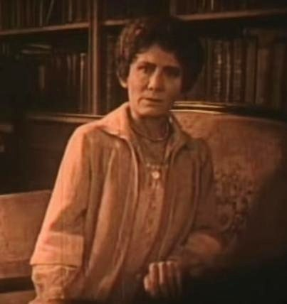 Margaret McWade in The Lost World - cropped screenshot